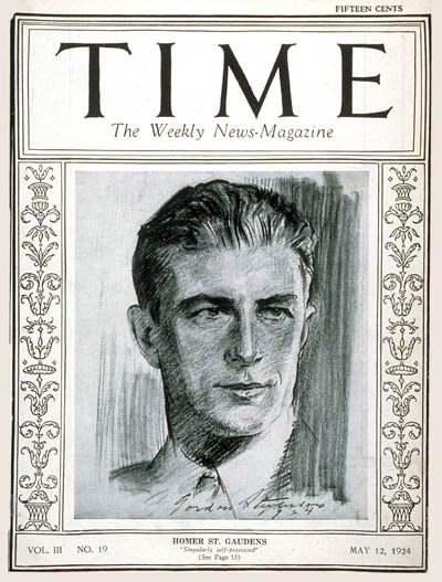 TIME Magazine Cover Featuring Homer Saint-Gaudens (12 May 1924)